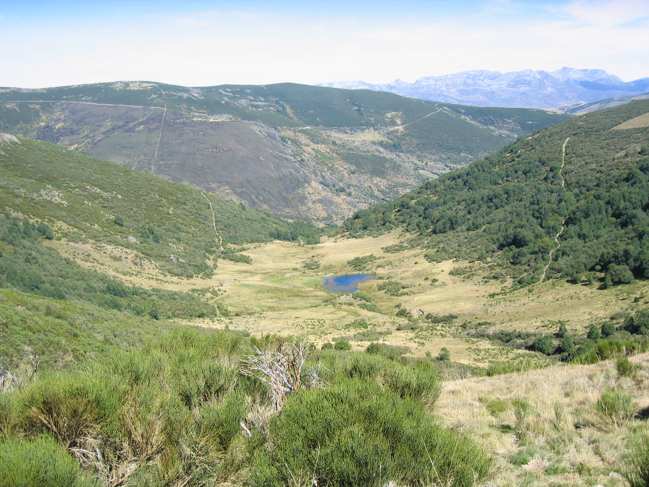 Valley of glaciar origin in Vivero, León, Spain